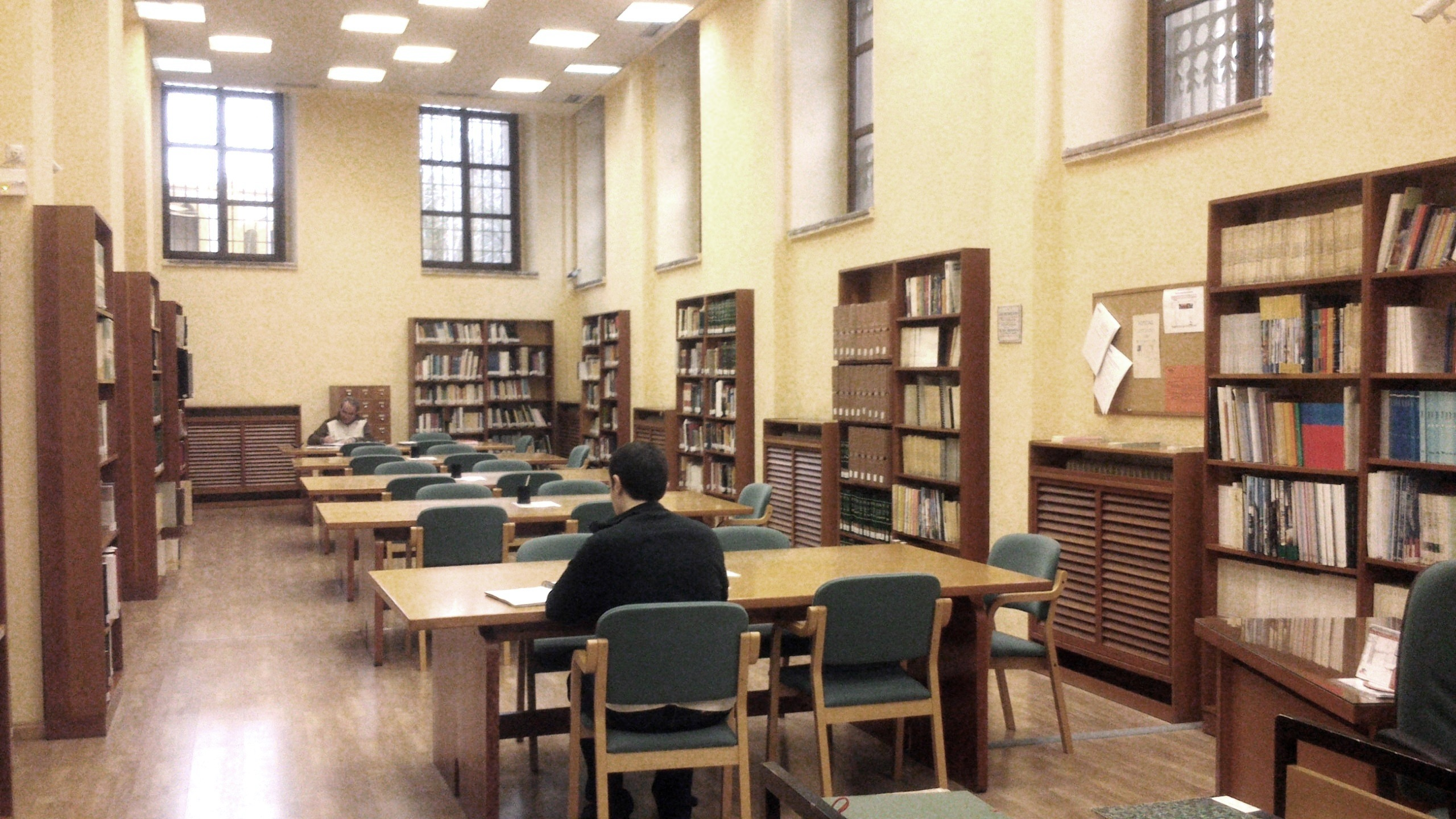 Archivo Histórico Provincial de Huesca. Aragón, España Biblioteca auxiliar del Archivo Histórico Provincial de Huesca, Aragón, España